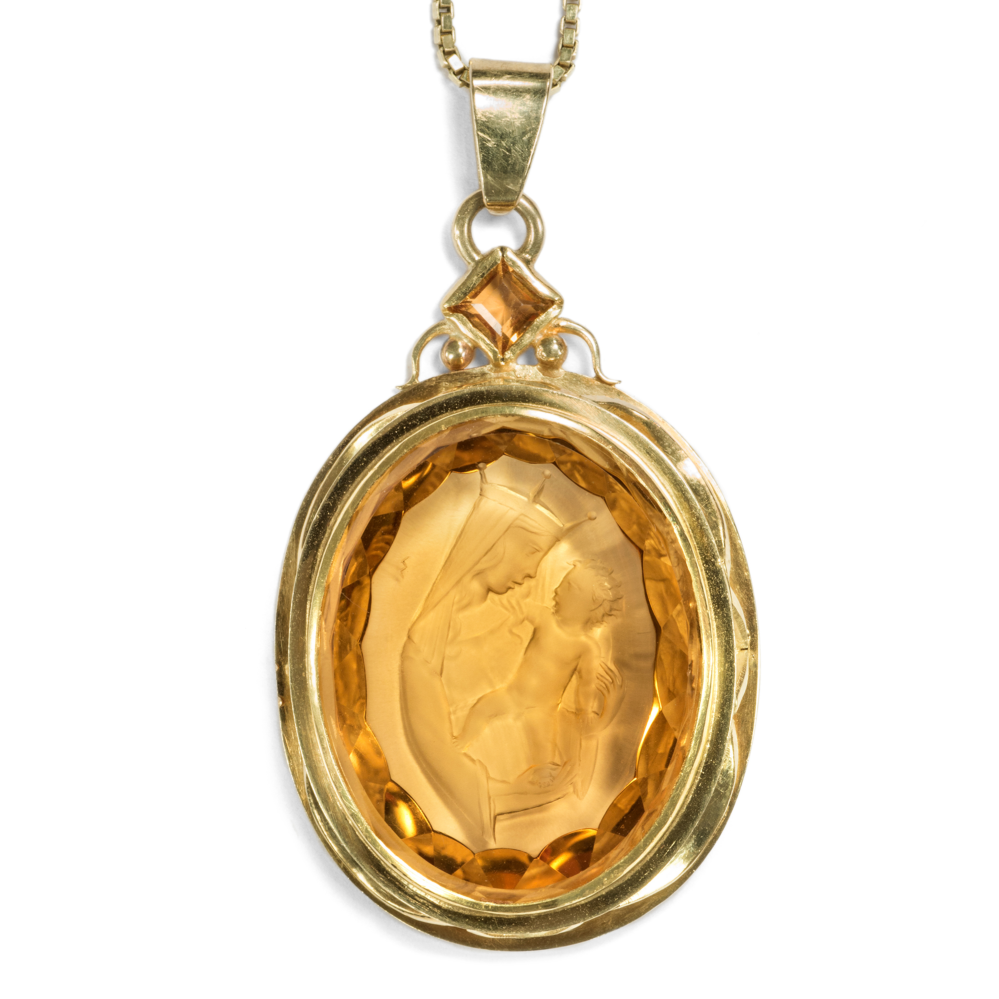 Intaglio in Citrin by Martin Seitz, showing Maria and Jesus, made 1930 ca., set in gold as a pendant. Property of Hofer Antikschmuck, Berlin (Germany).